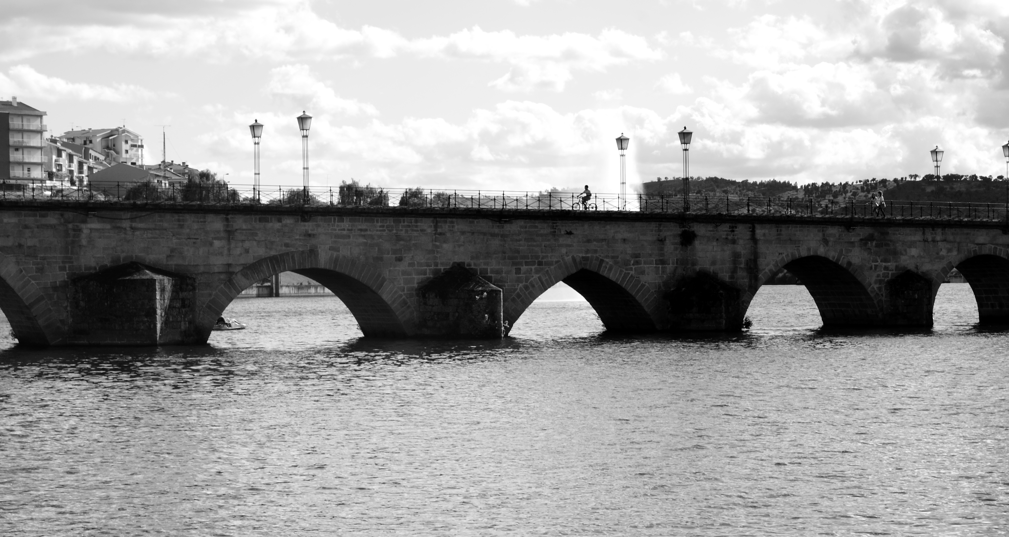 This monument is classified as Monumento Nacional. This file was uploaded for Wiki Loves Monuments in Portugal with the unique identifier 70533.